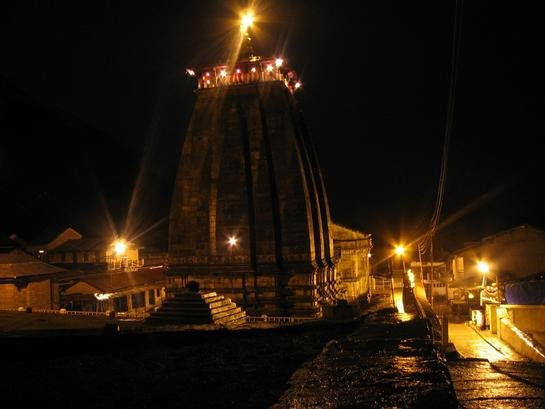 Kedarnath temple night view, Uttarakhand (10:30 PM, May, 2005)